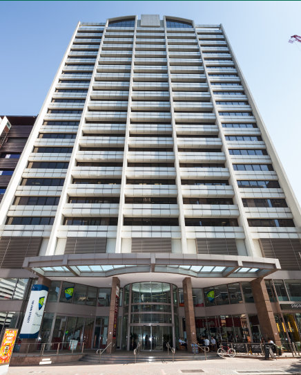 Anne Street, Brisbane